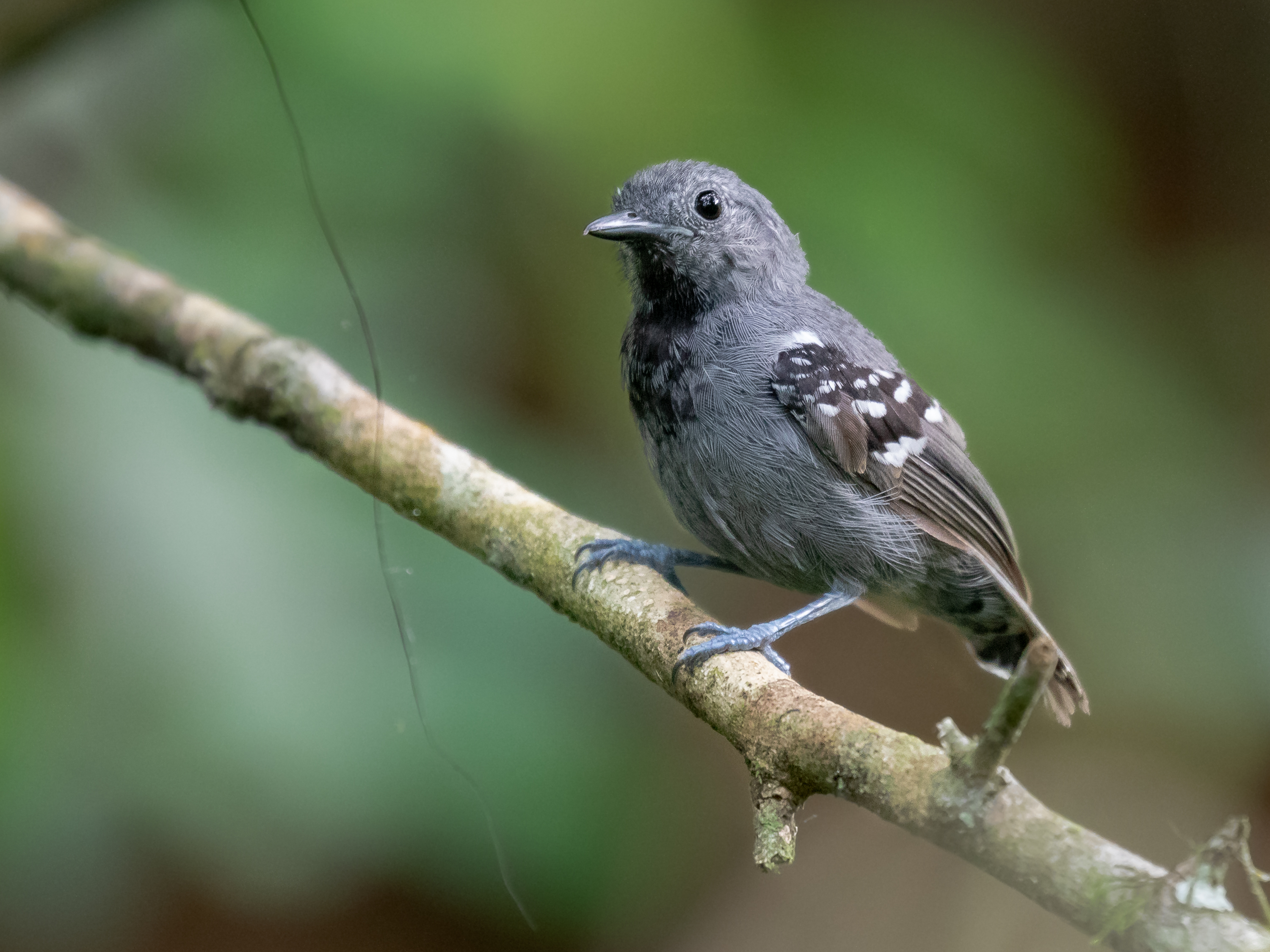 Salvadori's antwren (male); São Sebastião; São Paulo, Brazil